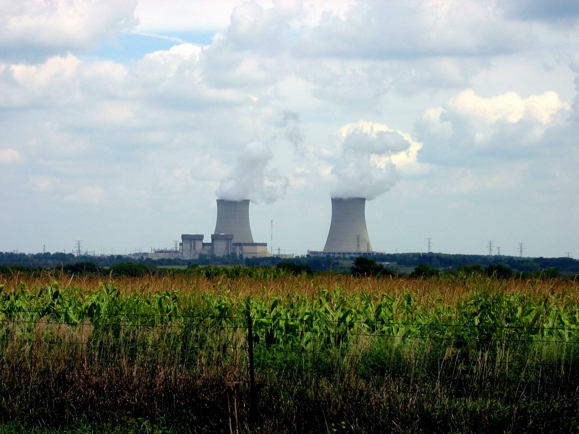 The Byron Nuclear Generating Station near Byron, Illinois, (Region 3)